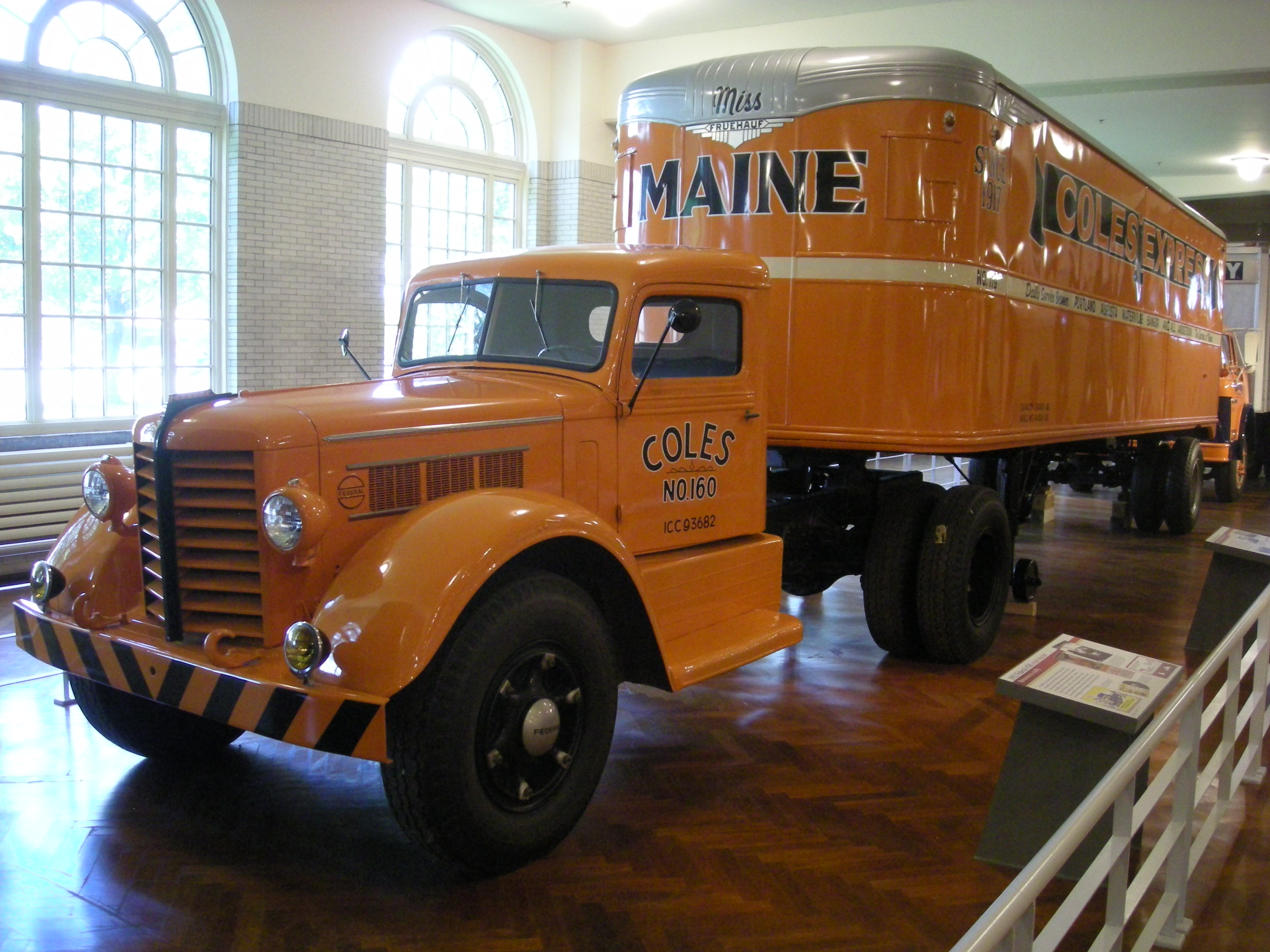 A 1952 Federal 45M truck tractor with a 1946 Fruehauf semi-trailer on display at the Henry Ford Museum in Dearborn, Michigan (United States).